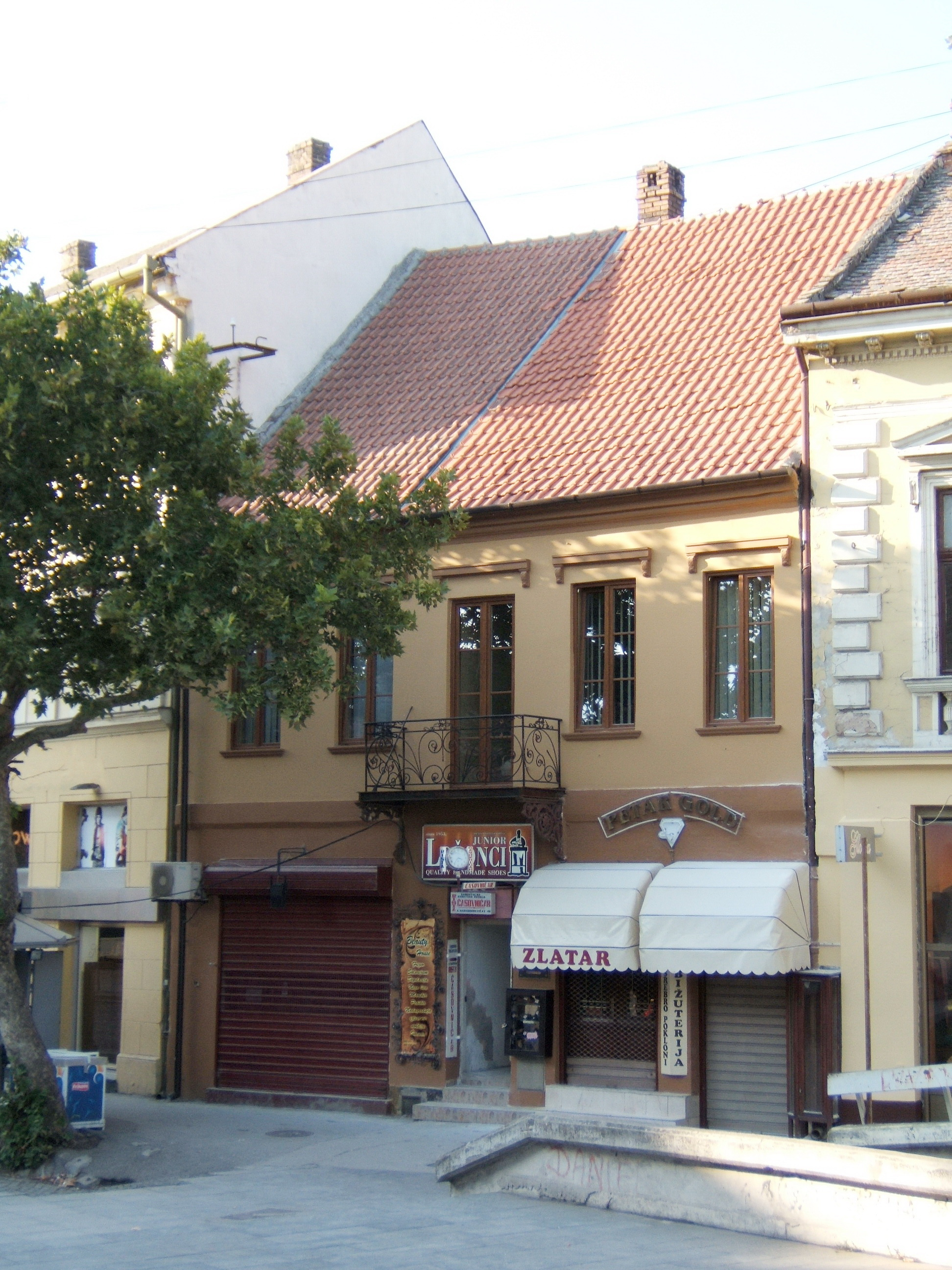 Kralja Aleksandra 49 building in Zrenjanin